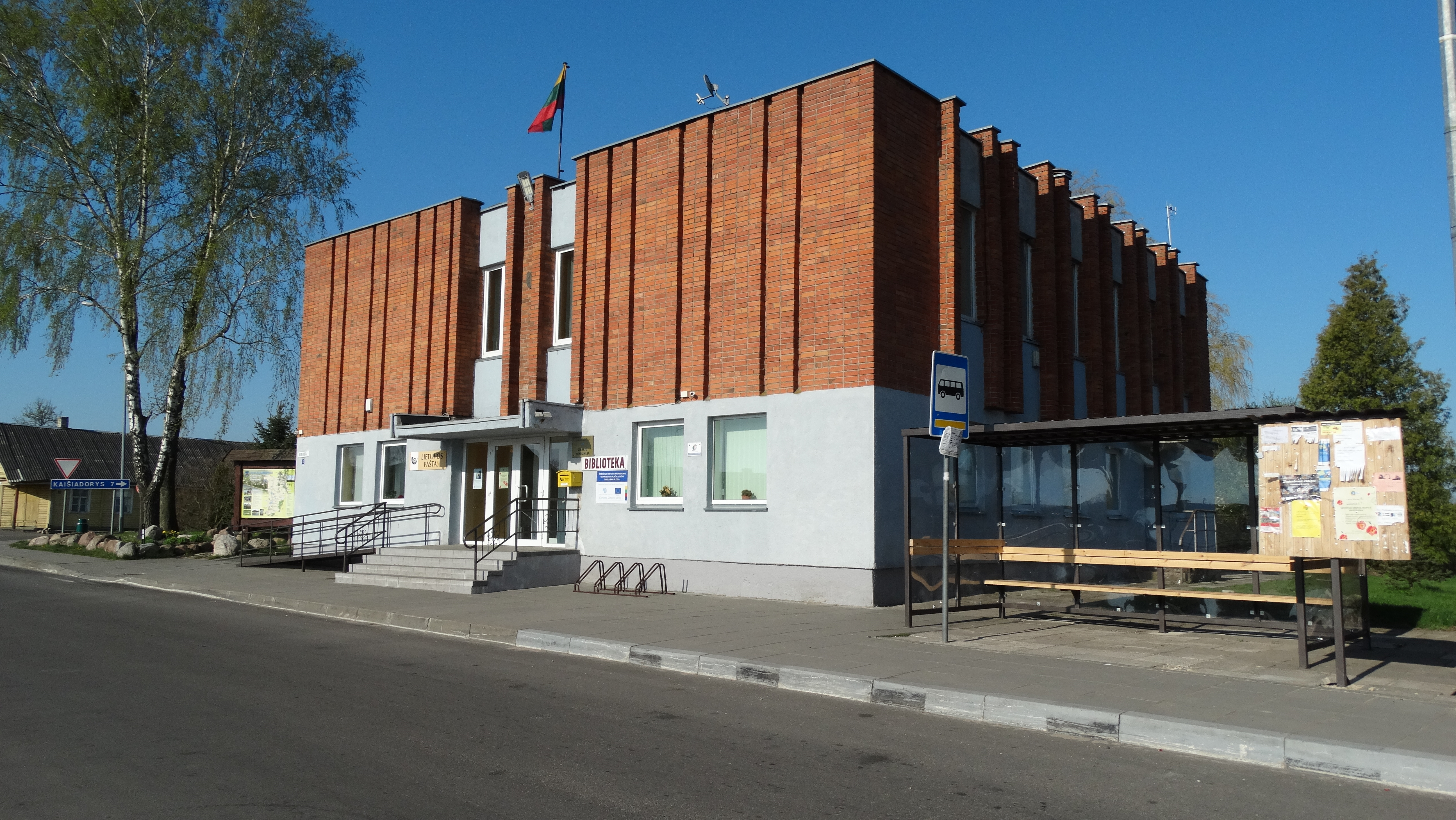 Eldership, Žasliai, Kaišiadorys District, Lithuania